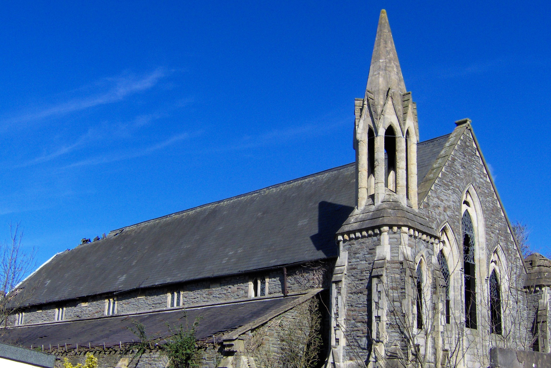 Masters Church, Regent Street, Kingswood, Bristol